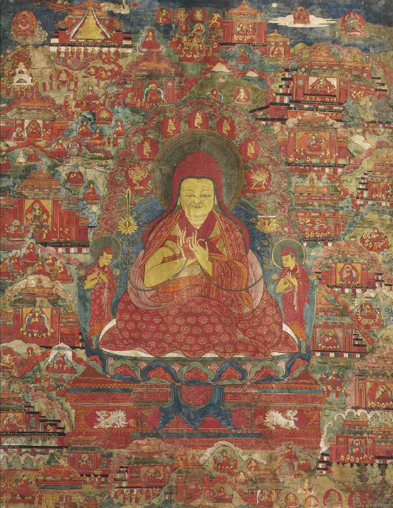 "Seated with hands in dharmachakramudra on a lotus base over a stepped lion throne, wearing red and orange brocade robes over a jacket and red pandita hat, holding two lotus stems bearing a book and sword, flanked by two standing figures also holding lotus stems, all backed by a large torana with golden deities at top, further surrounded by the scenes of his life, all set in a verdant mountainous landscape." "Lowo Khenchen Sonam Lhundrub, or just Sonam Lhundrub and also known as Legp'a Jungne, lived from 1456-1532. He was the son of the Second Mustang Dharma King - Agon Sangpo. He traveled to Central Tibet several times to study at the great Sakya and Ngor monasteries." Standing to his right is Jamyang Kunga Sonam Dragpa (1485-1533), the 23rd Sakya Trizin, and to his left is Ngagchang Chenpo Kunga Rinchen (1517-1584), the 24th Sakya Trizin. Sonam Lhundrub was a teacher to both of these important religious and political figures." "This is the only known painting depicting his life story in one composition, starting with birth at upper right and proceeding clockwise to his death and cremation at upper left. This painting was commissioned by Palden Lodro, on whom there is currently no further information." Tibet, 15th century; 71 x 55 cm Source